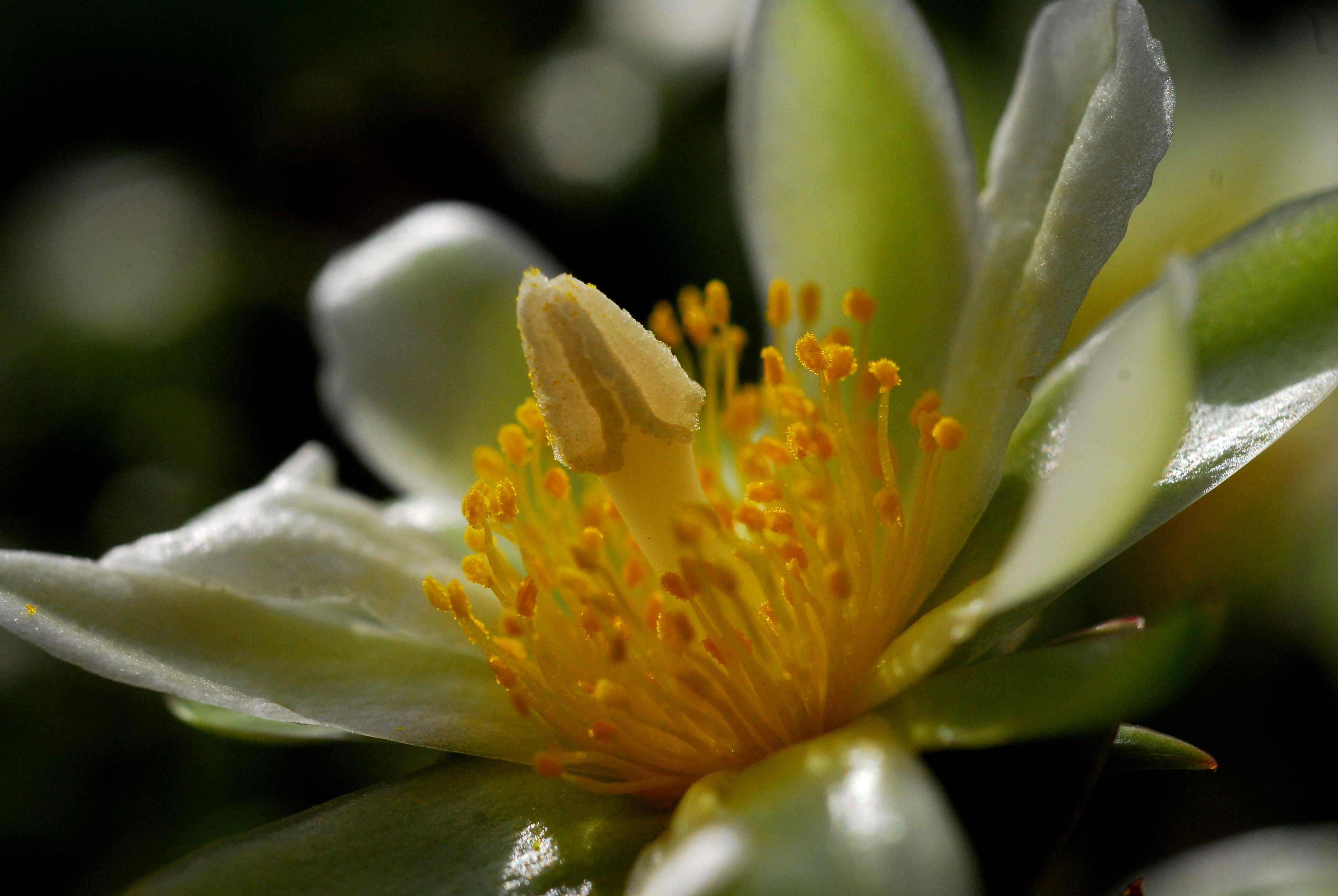 Flower of Pereskia aculeata